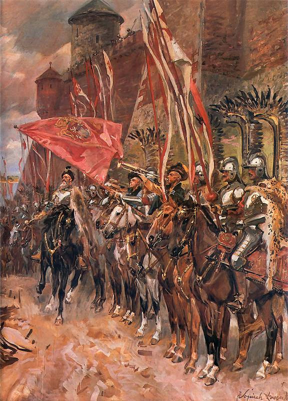 Hetman Żółkiewski z hussariąpart of his triptych named Vision of the Polish Army